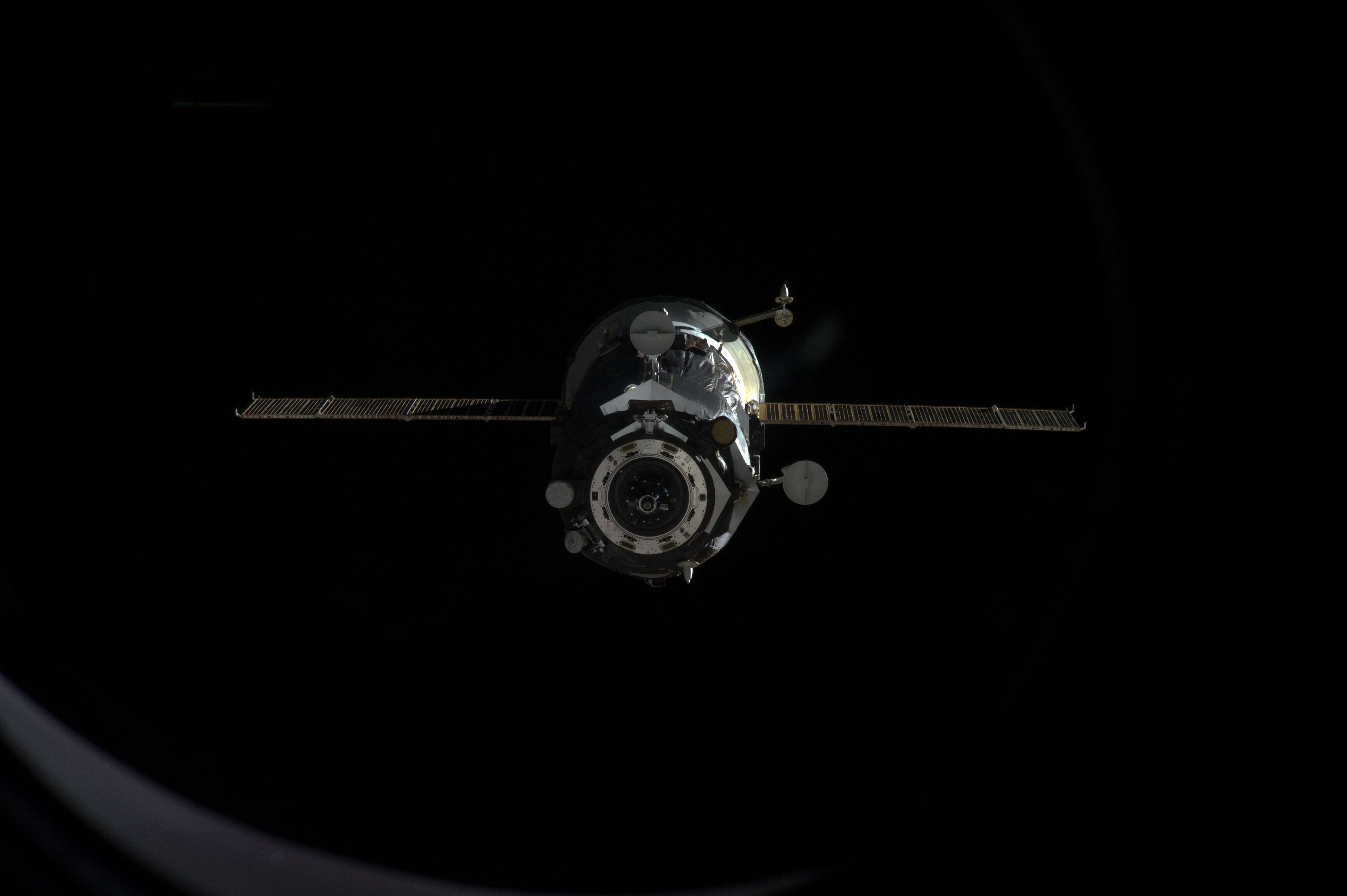 The unpiloted Russian Progress 47 supply vehicle departs from the International Space Station on July 30, 2012. The trash-filled Progress will orbit Earth for several weeks of engineering tests before re-entering the Earth's atmosphere over the Pacific Ocean. The departure of Progress 47 clears the way for the next unpiloted supply ship, Progress 48, which is set to launch at 3:35 p.m. (EDT) on Aug. 1 from the Baikonur Cosmodrome in Kazakhstan. Docking is targeted less than six hours later at 9:24 p.m. to the station's Pirs Docking Compartment.